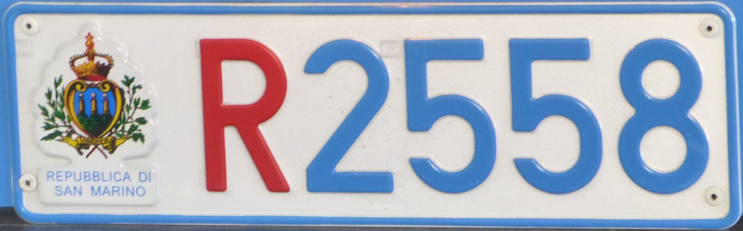 Trailer license plate from San Marino, R = Rimorchio (trailer)